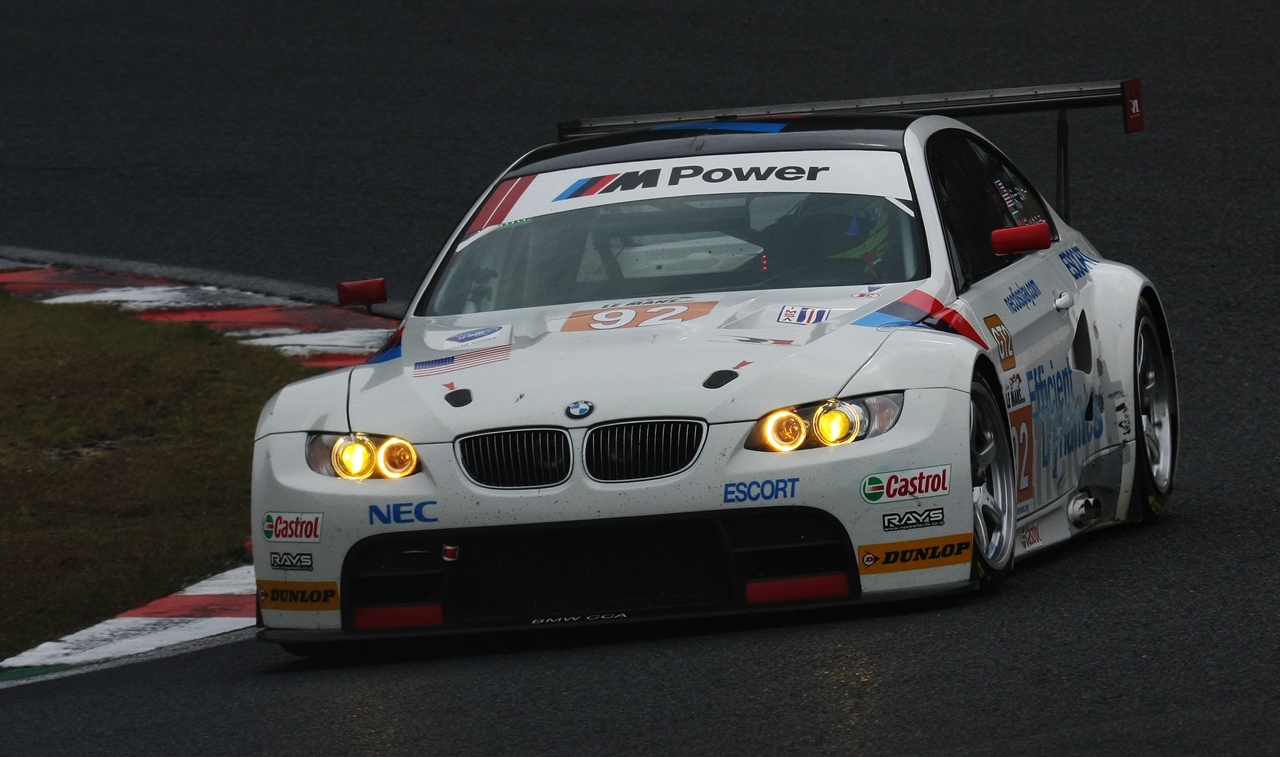 Asian Le Mans Series 2009 1000km of Okayama: BMW M3 GT2 (BMW Rahal Letterman Racing), driven by Tommy Milner.